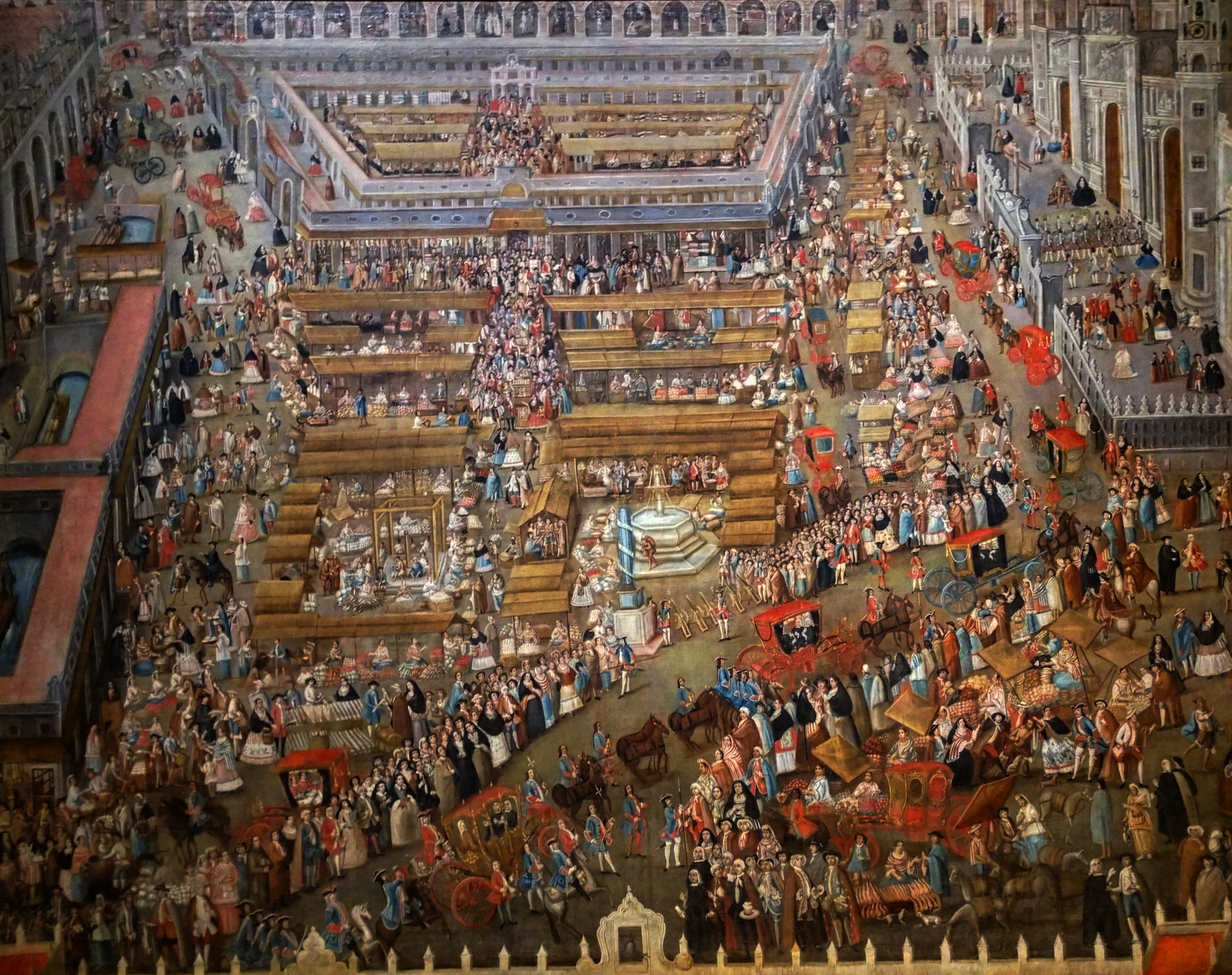 Main Square of Mexico City by Diego García Conde 1765 Oil on canvas National Museum of History of Mexico, room 2.